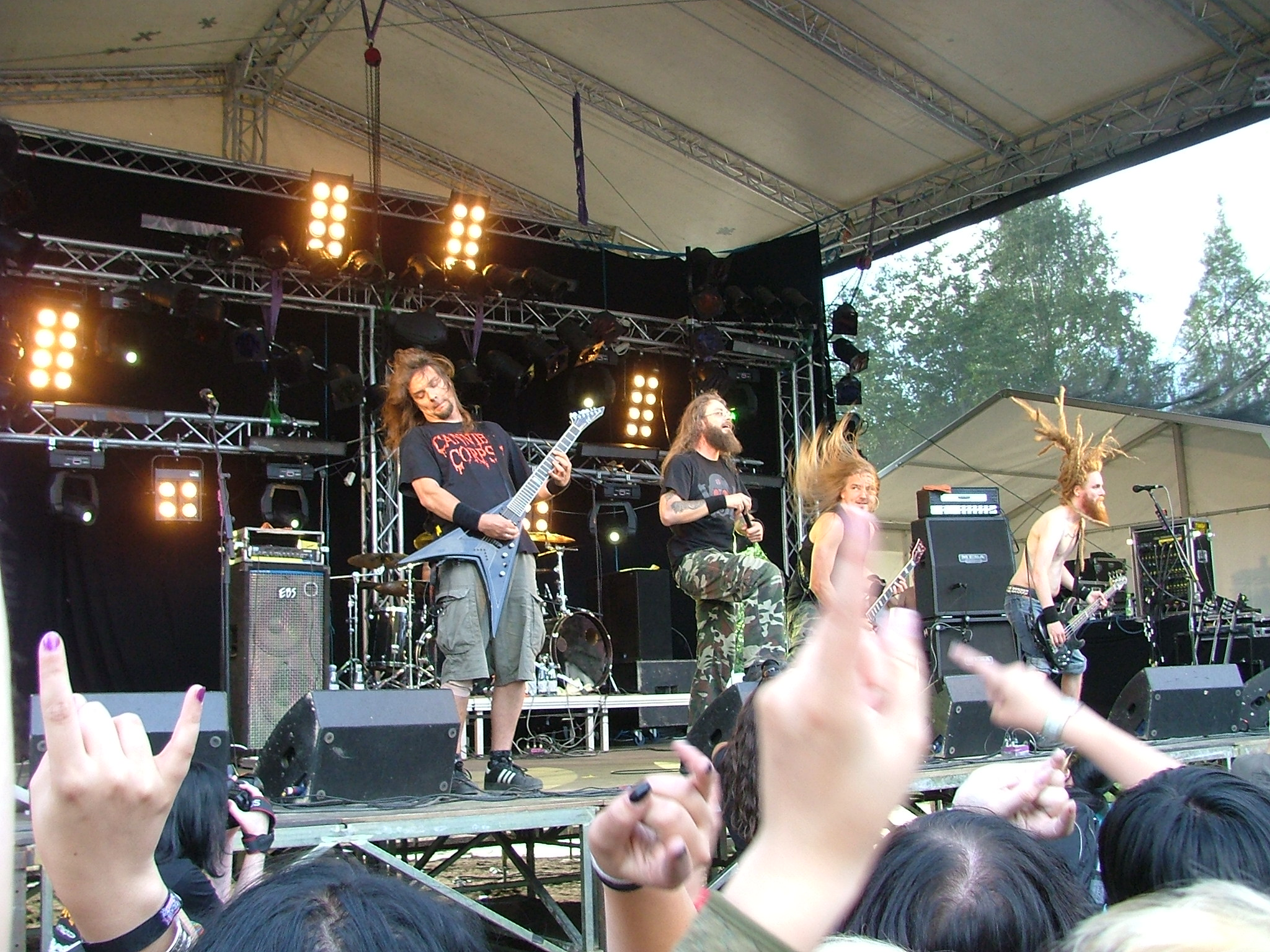 Finnish thrash metal band Mokoma in Kuopio at Rockcock-musicfestival